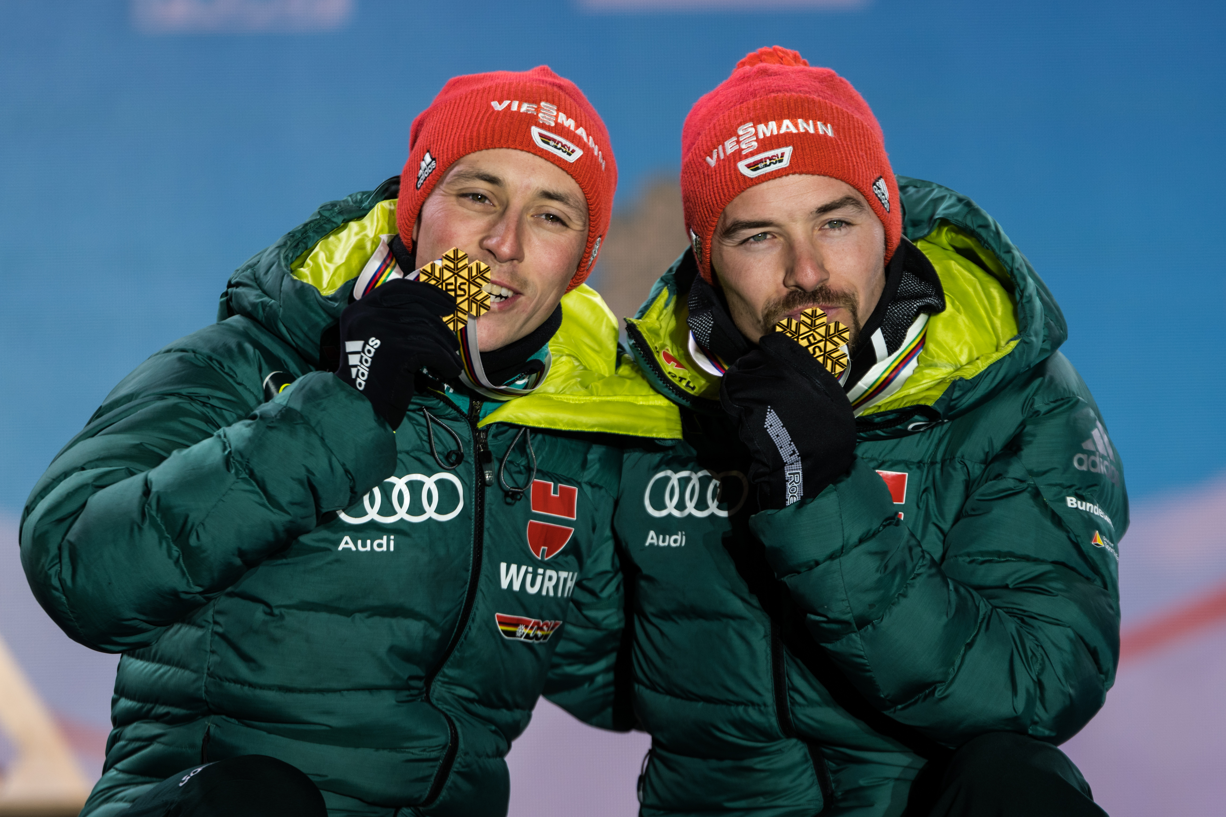 FIS Nordic Wolrd Championships Seefeld 2019 - Medal Ceremony at the Medal Plaza. Picture shows Eric Frenzel (GER), Fabian Riessle (GER)